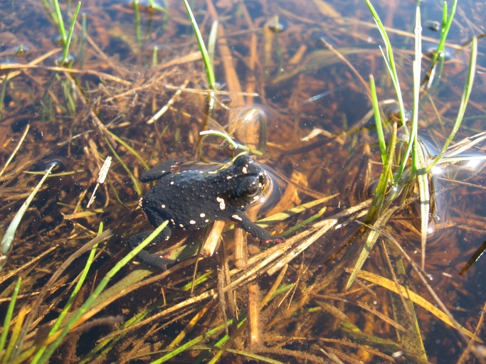 Melanophryniscus montevidensis